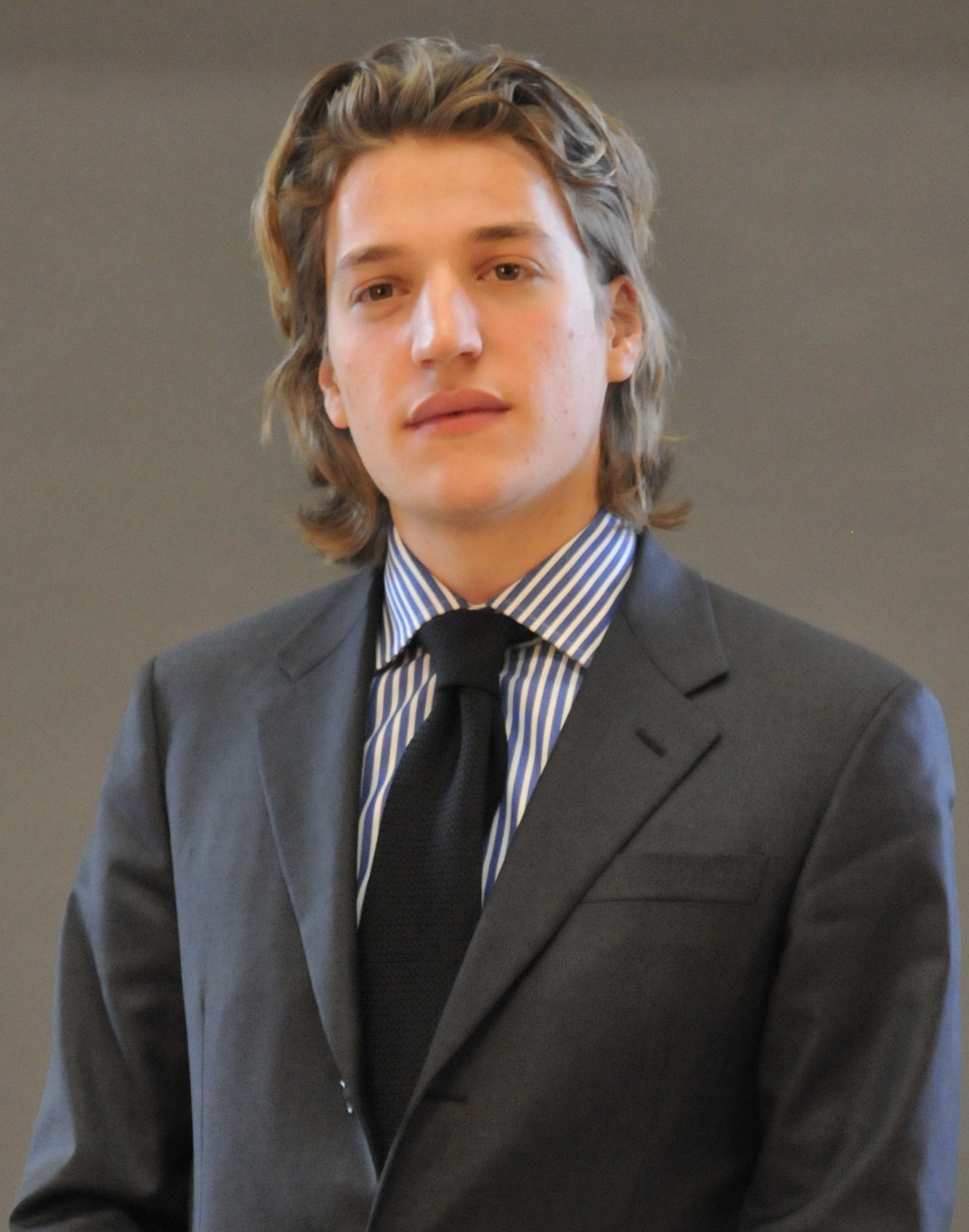 French president's son Jean Sarkozy is seen at the first meeting of General Council of the 'Hauts de Seine' departement, in Nanterre, France on March 20, 2008.